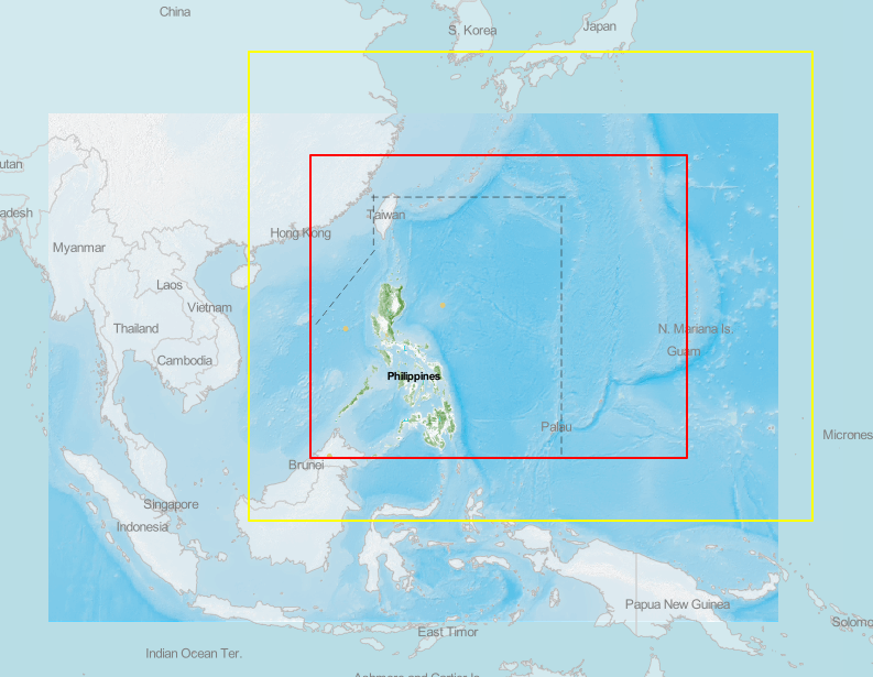 The three domains (in the Northwest Pacific Basin) of the Philippine Atmospheric, Geophysical and Astronomical Services Administration (PAGASA) for their monitoring of tropical cyclone activity: Philippine Area of Responsibility / PAR (gray broken lines), Tropical Cyclone Advisory Domain / TCAD (red), and Tropical Cyclone Information Domain / TCID (yellow) Filipino: Ang tatlong domain (sa Hilagang-Kanlurang Pasipiko) ng Pangasiwaan ng Pilipinas sa Serbisyong Atmosperiko, Heopisiko at Astronomiko (PAGASA) para sa pagbabantay ng mga bagyo: Philippine Area of Responsibility / PAR (abuhin, putol-putol), Tropical Cyclone Advisory Domain / TCAD (pula), at Tropical Cyclone Information Domain / TCID (dilaw)